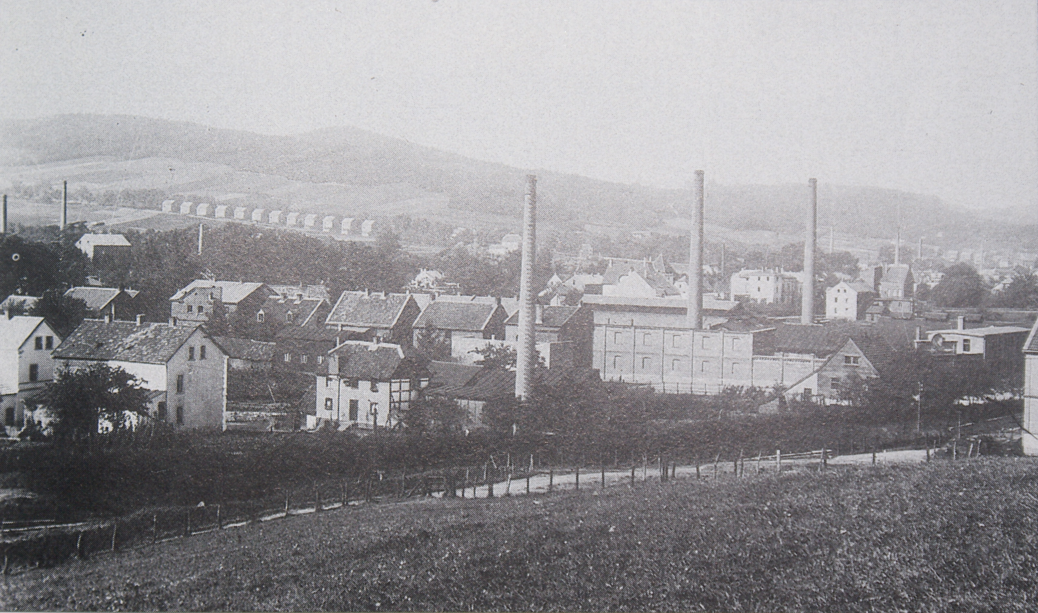 Hemer, view from Oberhemer to Hemerhardt